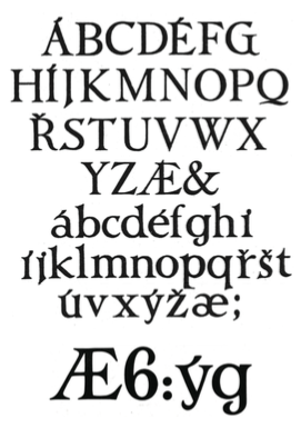 Typeface design by V.H. Brunner